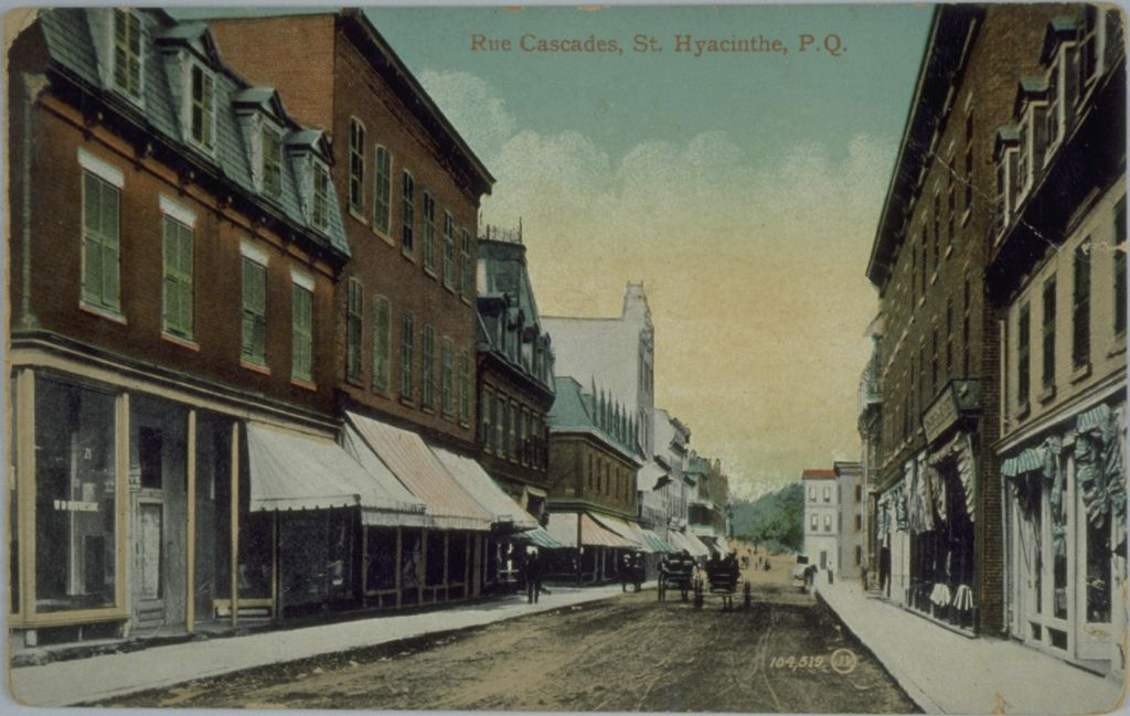 Rue Cascades, St. Hyacinthe, carte postale, E.H. Richer & fils